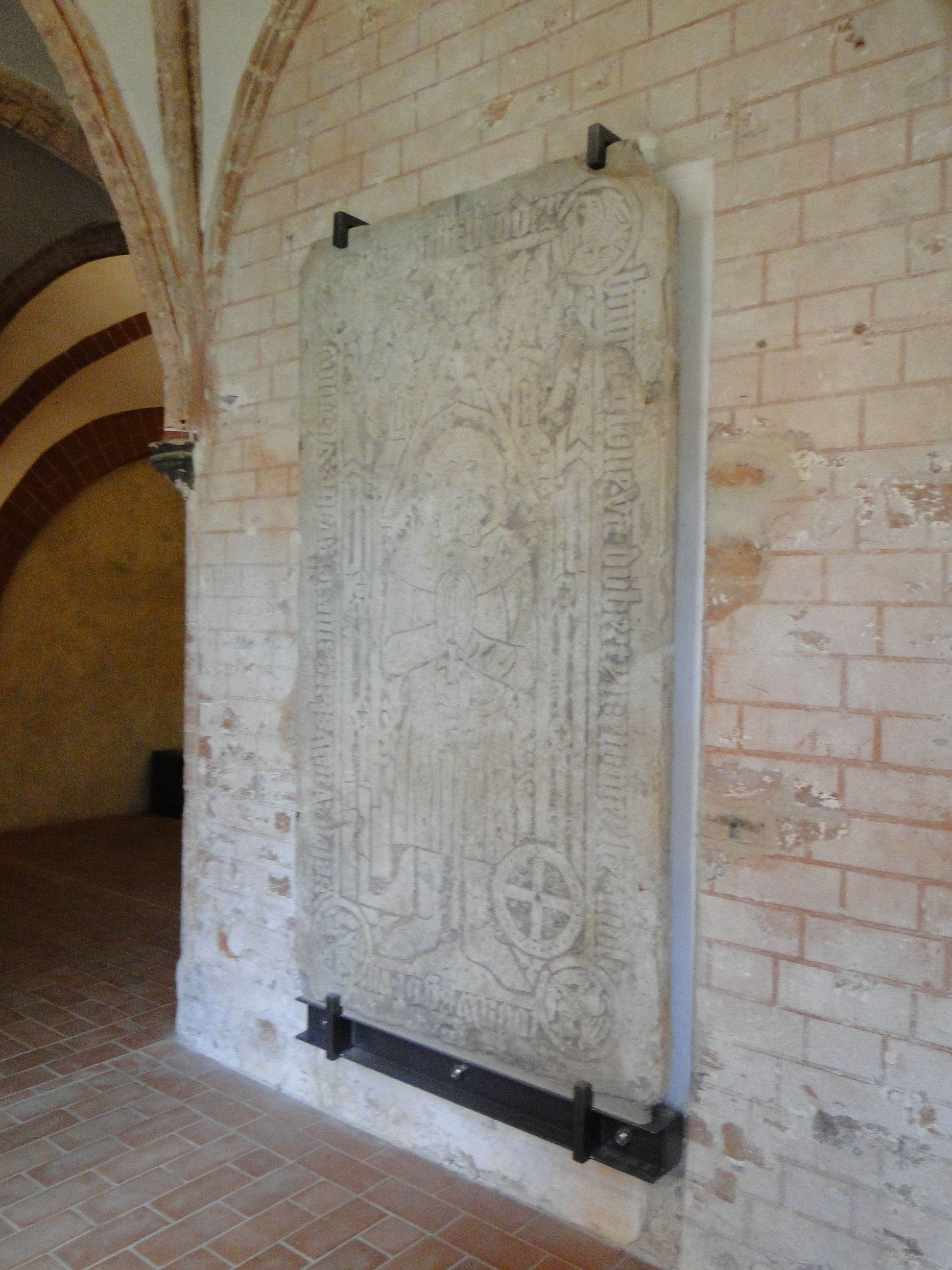 Ledger stone in the Cloister of Monastery in Dobbertin, district Parchim, Mecklenburg-Vorpommern, Germany